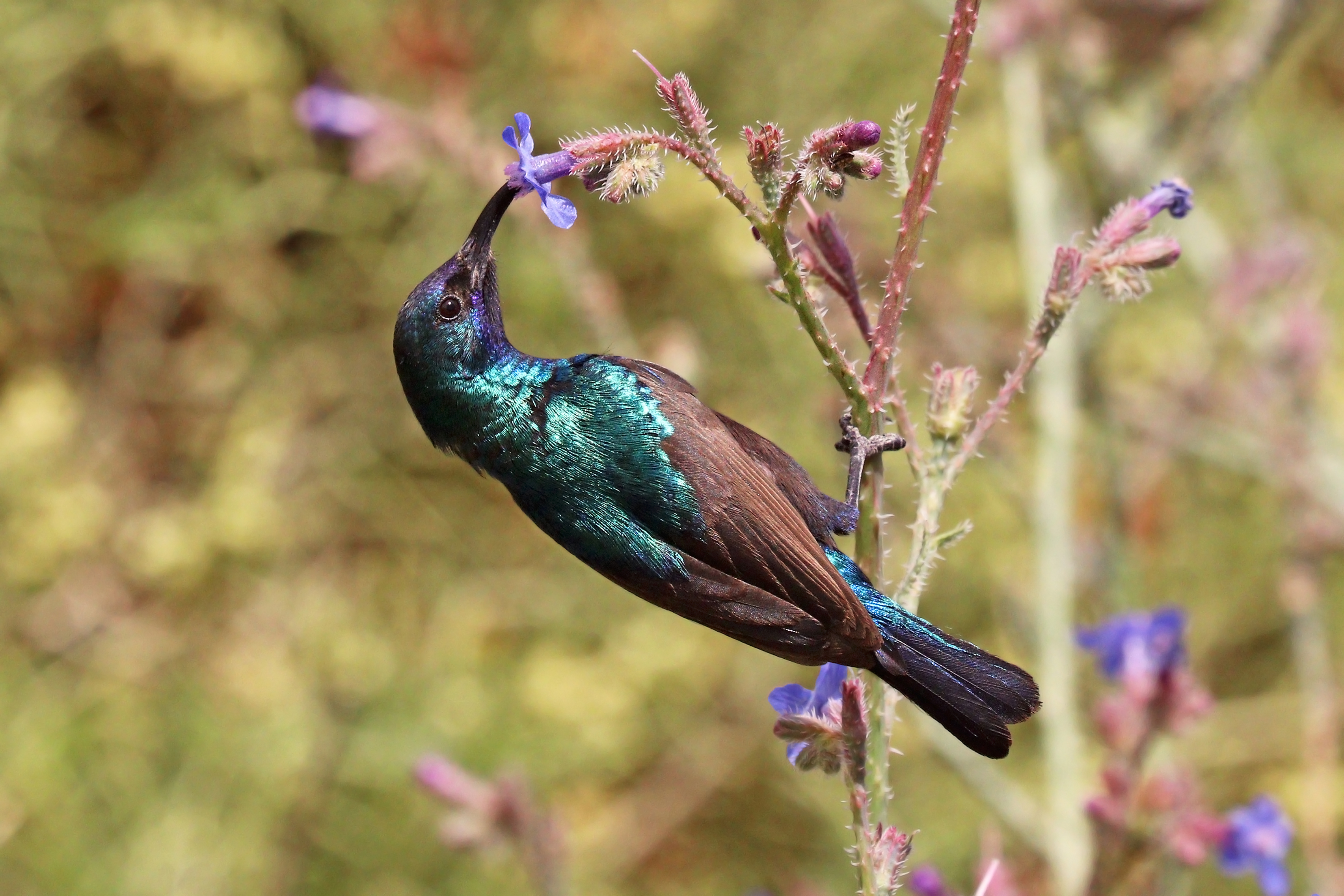 Palestine sunbird (Cinnyris osea osea) male, Dana Biosphere Reserve, Jordan